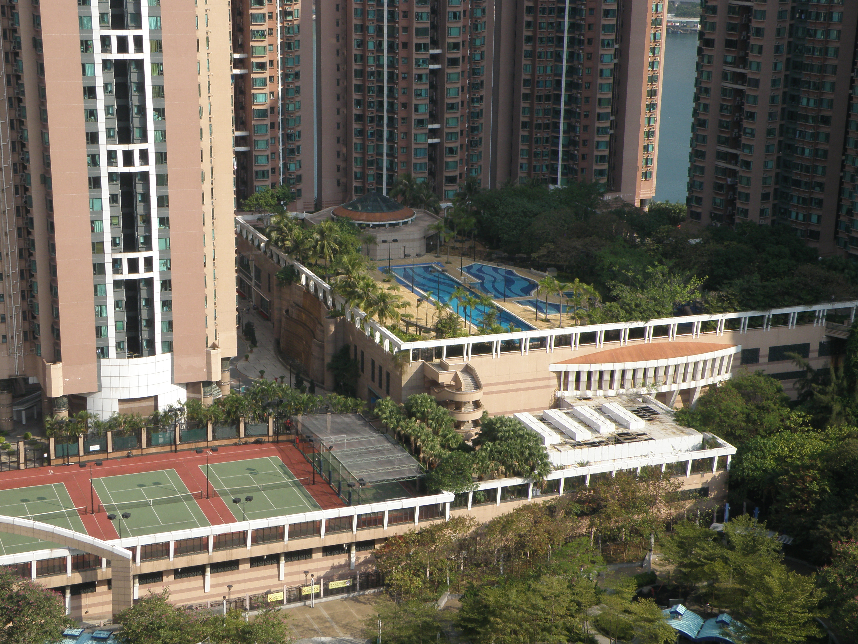 Villa Esplanada in Tsing Yi, Hong Kong.